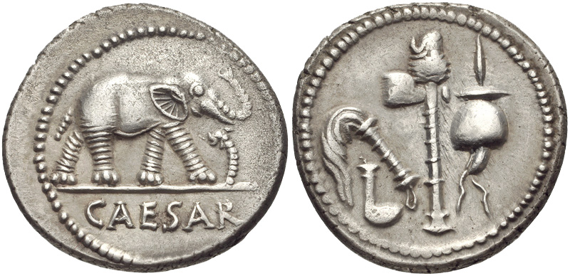 Julius Caesar. 49-48 BC. AR Denarius (17mm, 4.01 g, 2h). Military mint traveling with Caesar. Elephant advancing right, trampling on horned serpent / Simpulum, aspergillum, securis, and apex. Crawford 443/1; CRI 9; Sydenham 1006; RSC 49. Good VF, toned, minor porosity.